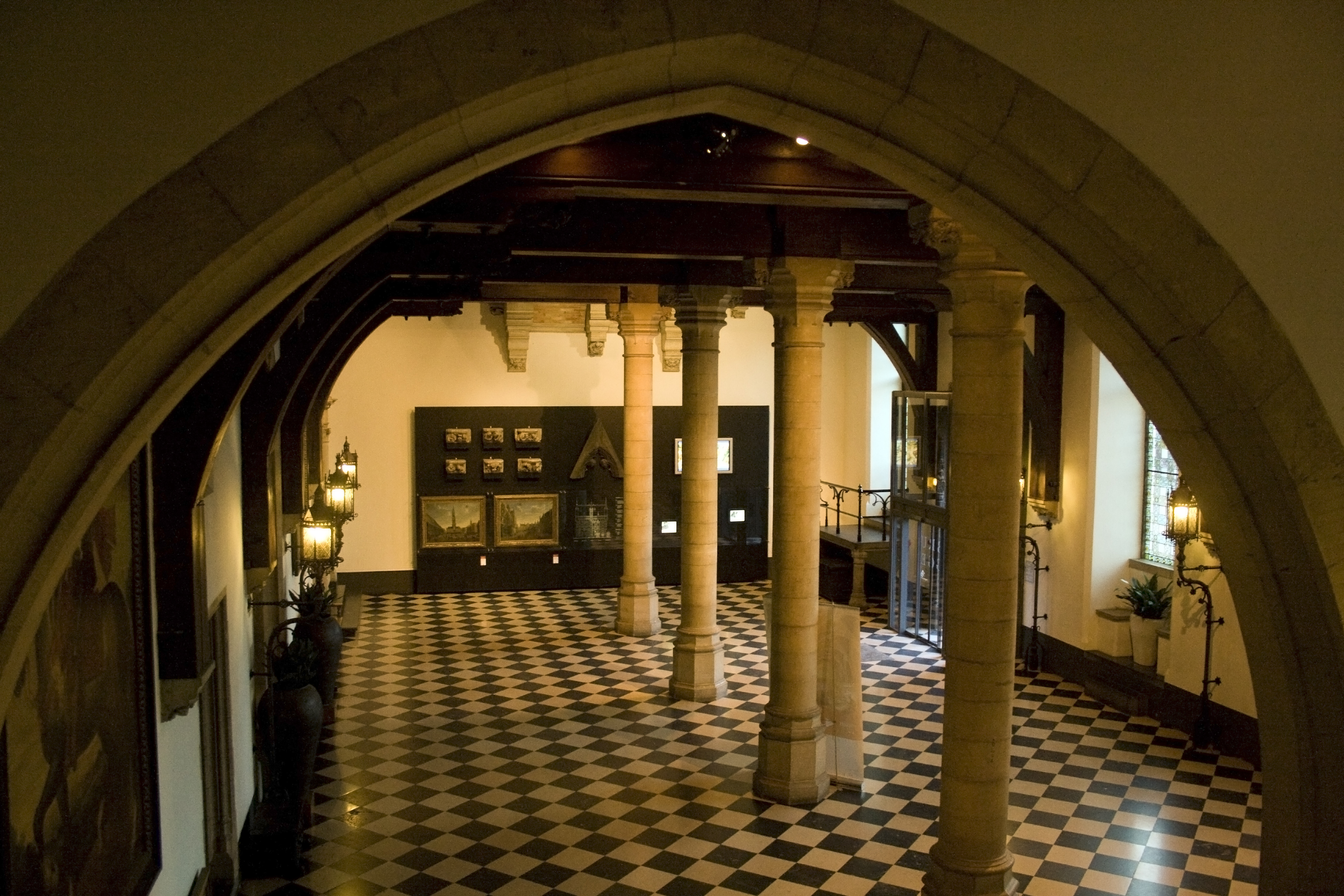 Entrance hall